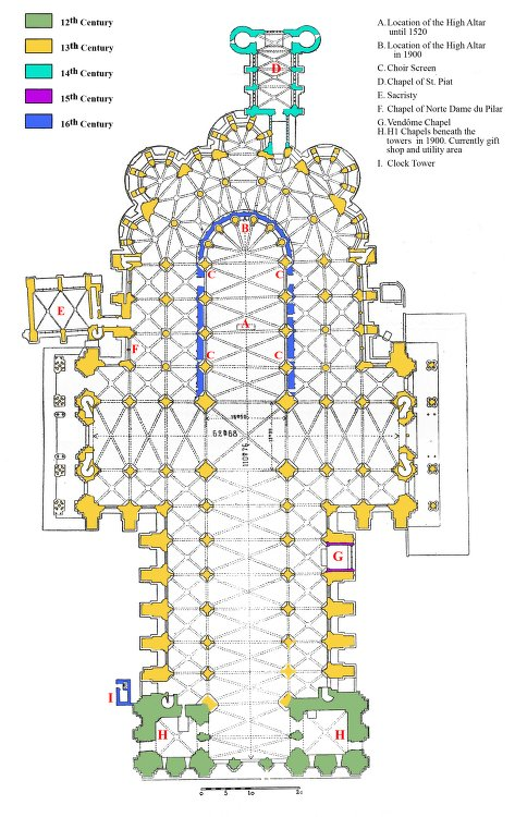 Chartres cathedral - Floorplan, Eure-et-Loir (France).